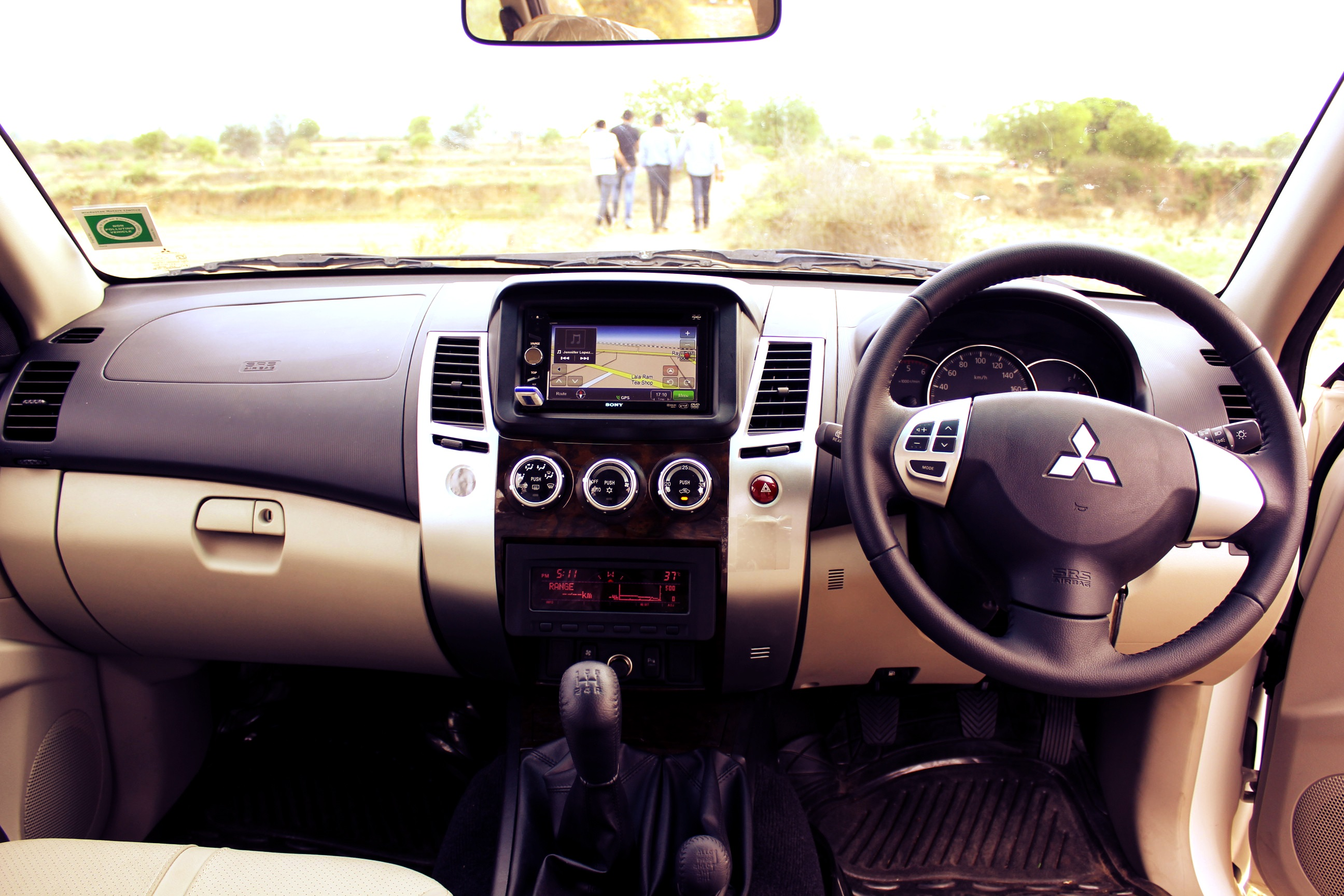 This file shows an SUV, Pajero Sport